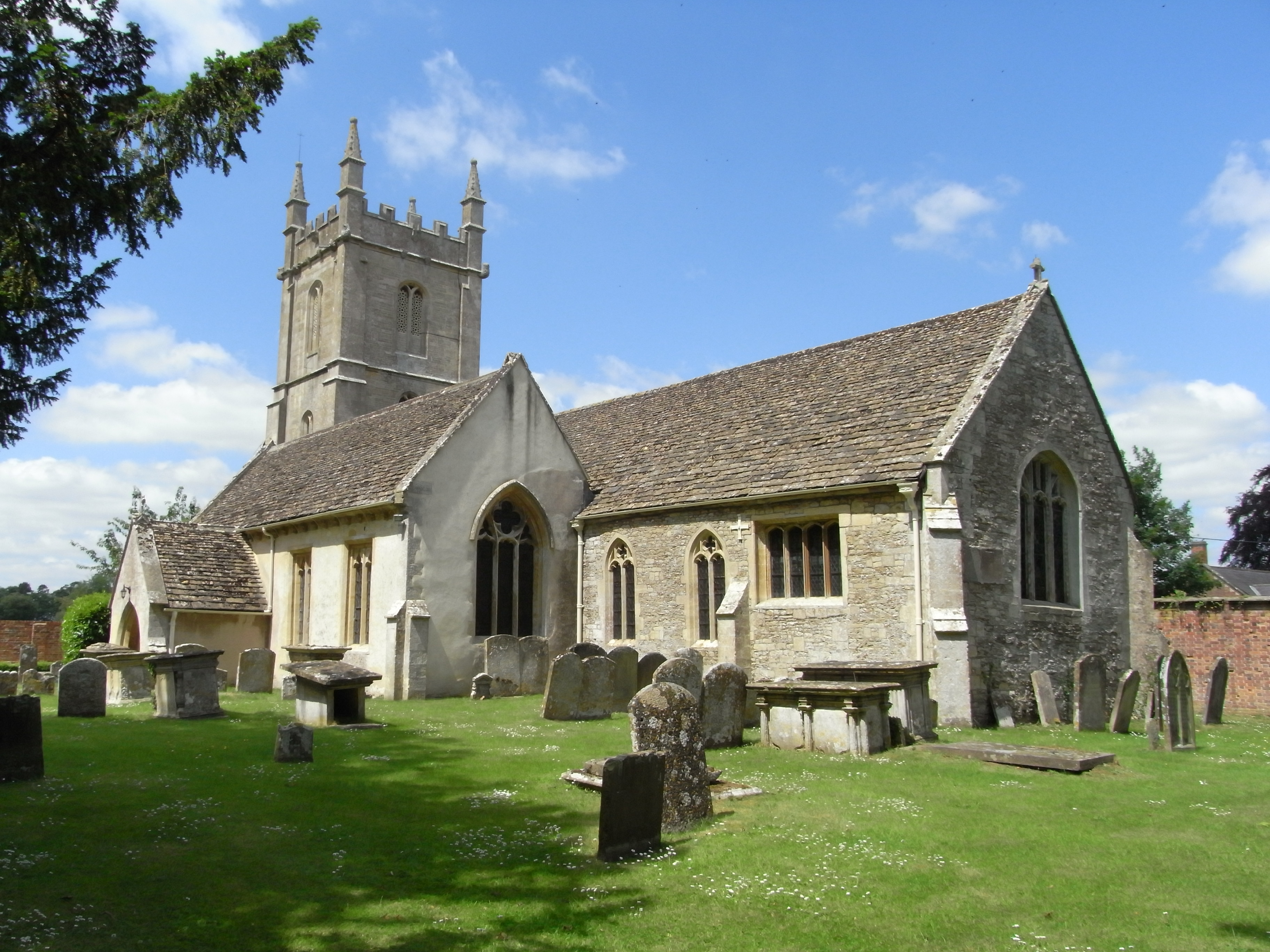 Church of St James the Great, Dauntsey, Wiltshire